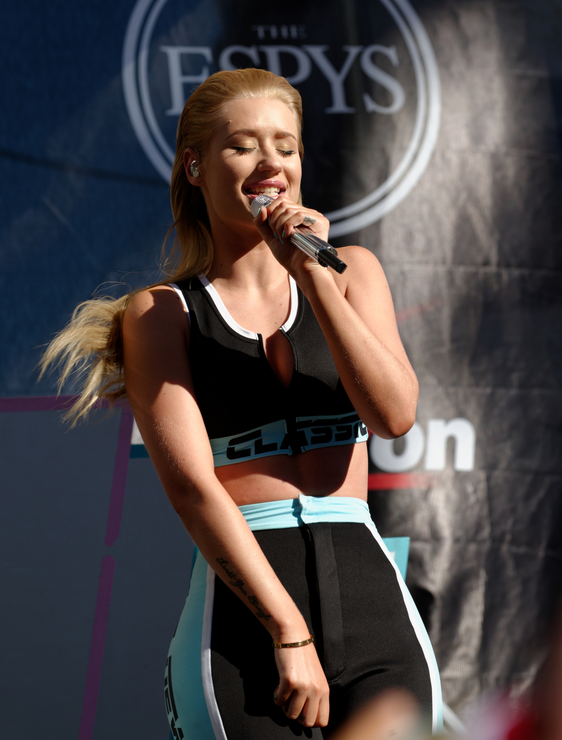 Iggy Azalea performing live at the ESPYs Experience (the ESPY Awards Pre-Show) on Nokia Plaza at L.A. Live in downtown Los Angeles California on Wednesday July 16th, 2014.